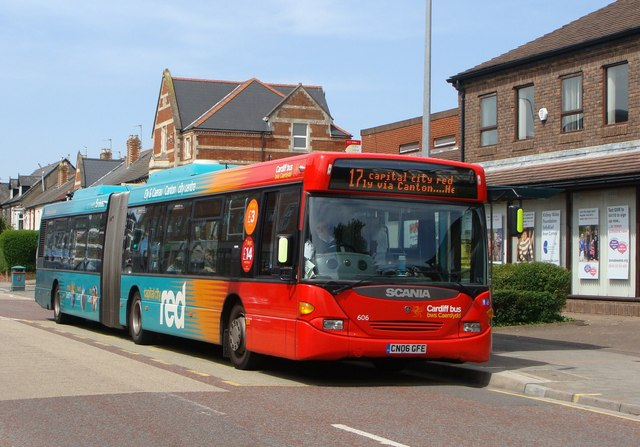 Cardiff Bus 606 (CN06 GFE), an articulated Scania OmniCity on Cowbridge Road East, Canton, Cardiff, on route 17. Year built 2006.